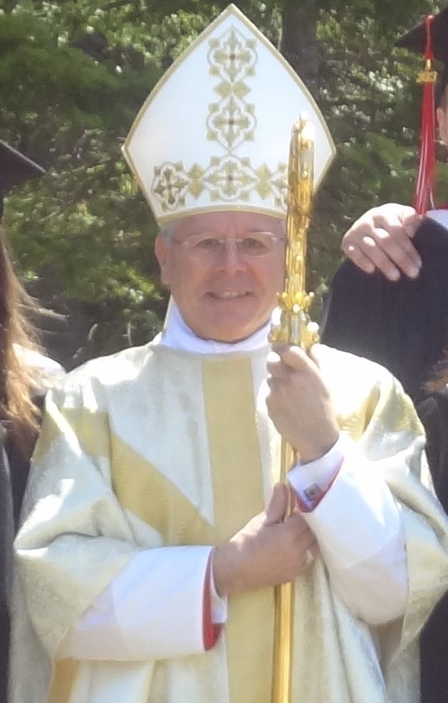 Peter Anthony Libasci, the tenth Catholic Bishop of Manchester, New Hampshire, United States.